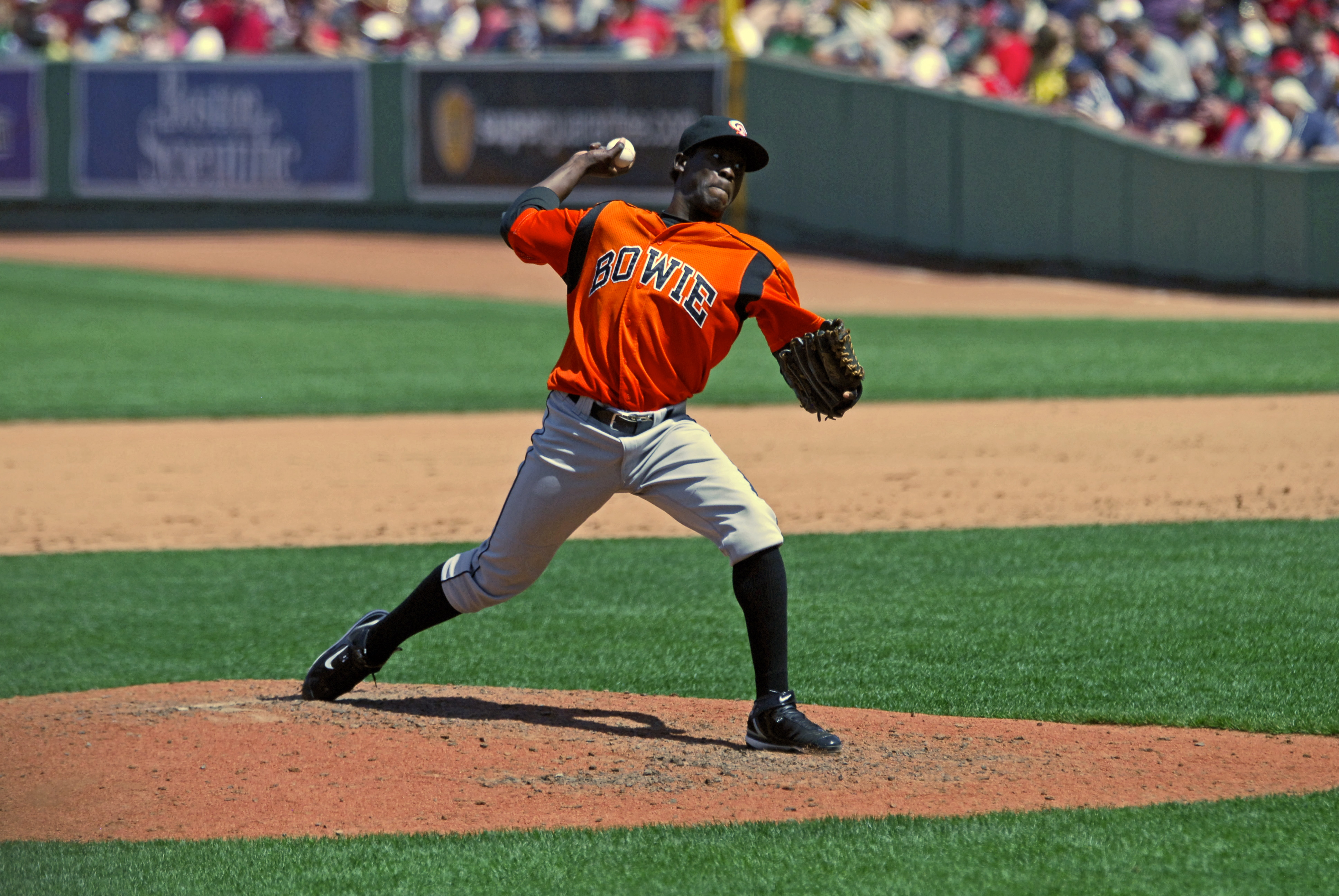 Bowie Baysox pitcher Luis Lebron at Fenway Park, 2009.